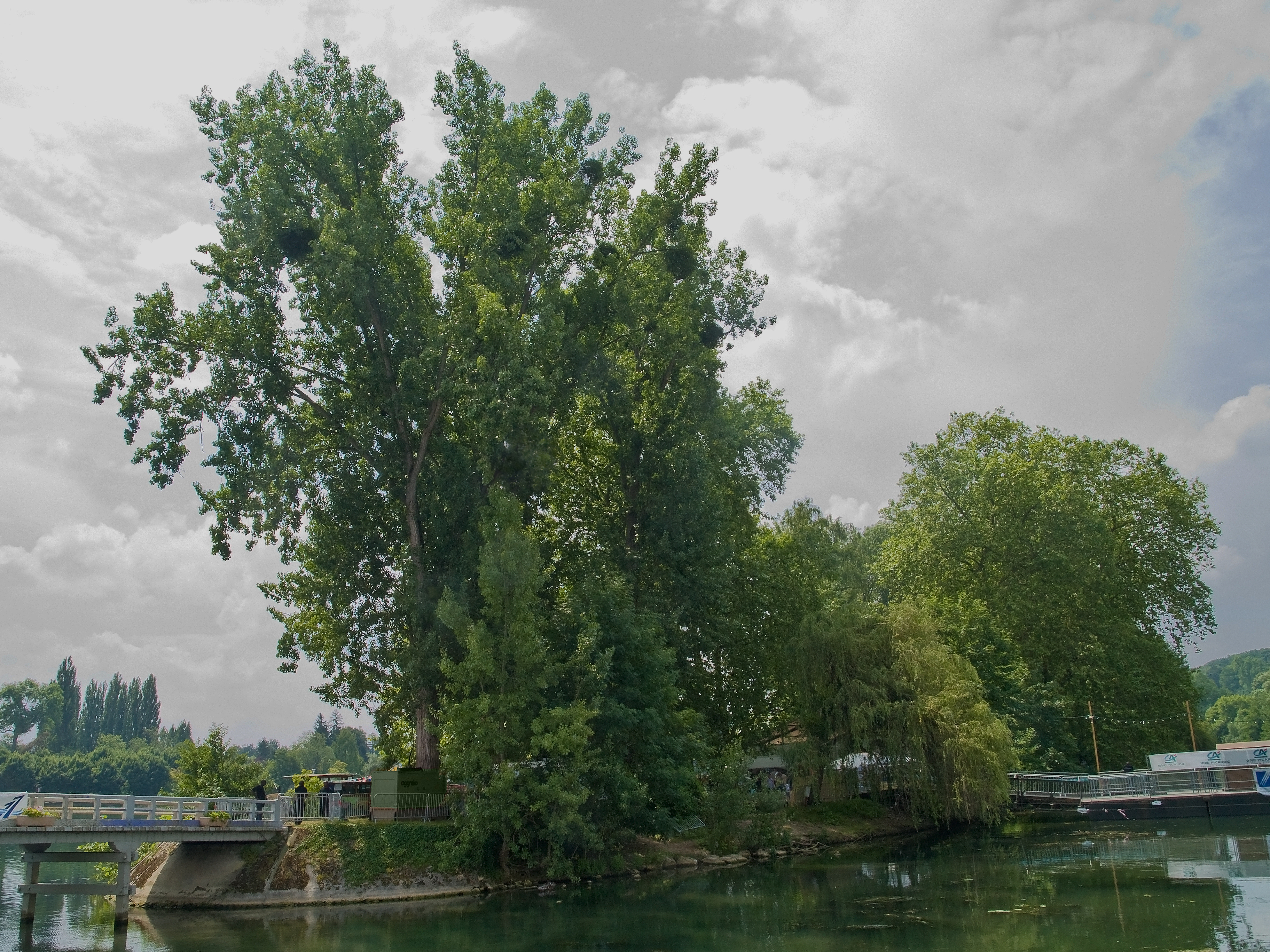 'Île du Berceau' (="Cradle Island") on the Seine River in Samois-sur Seine, where the Django Reinhardt Festival in Samois-sur-Seine (Seine-et-Marne, France) took place each year from its beginning in 1983 to 2015 (since in chateau de Fontainebleai.